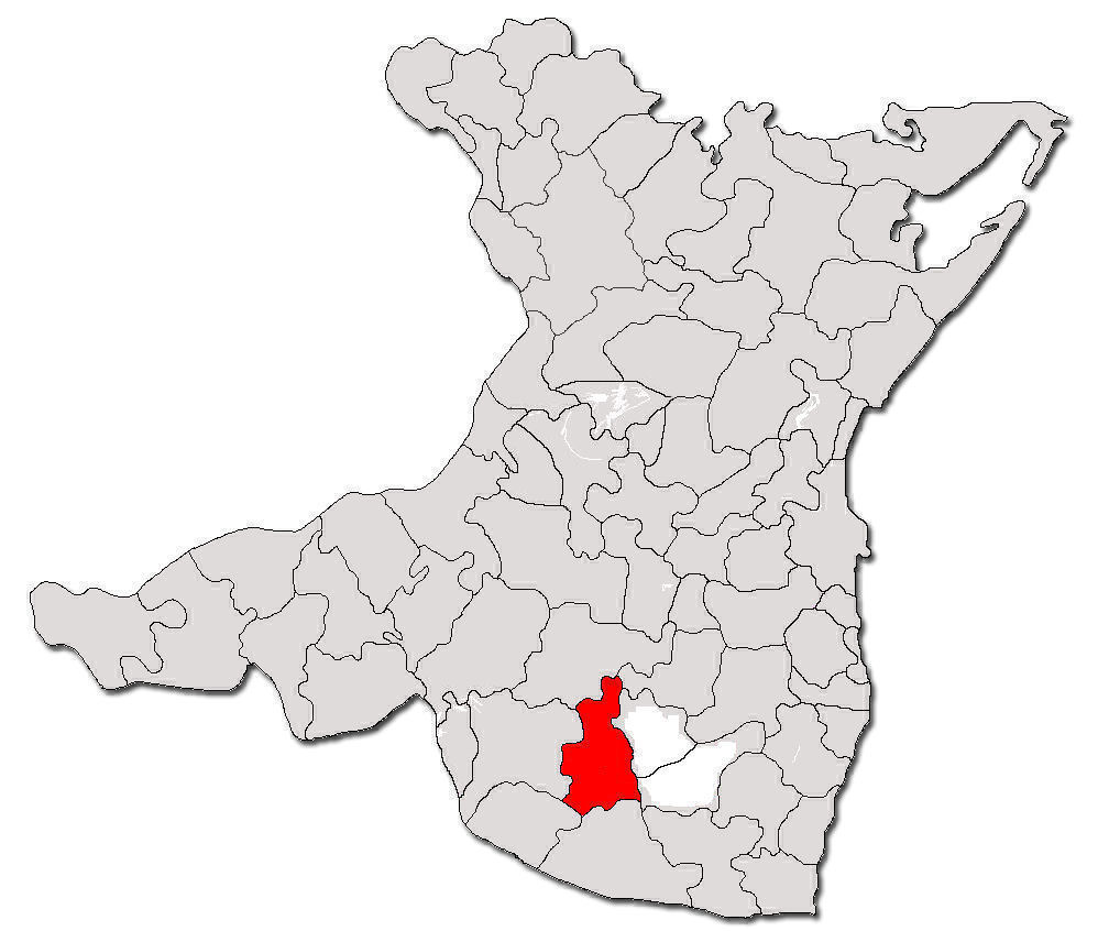 Contour map of commune Chirnogeni